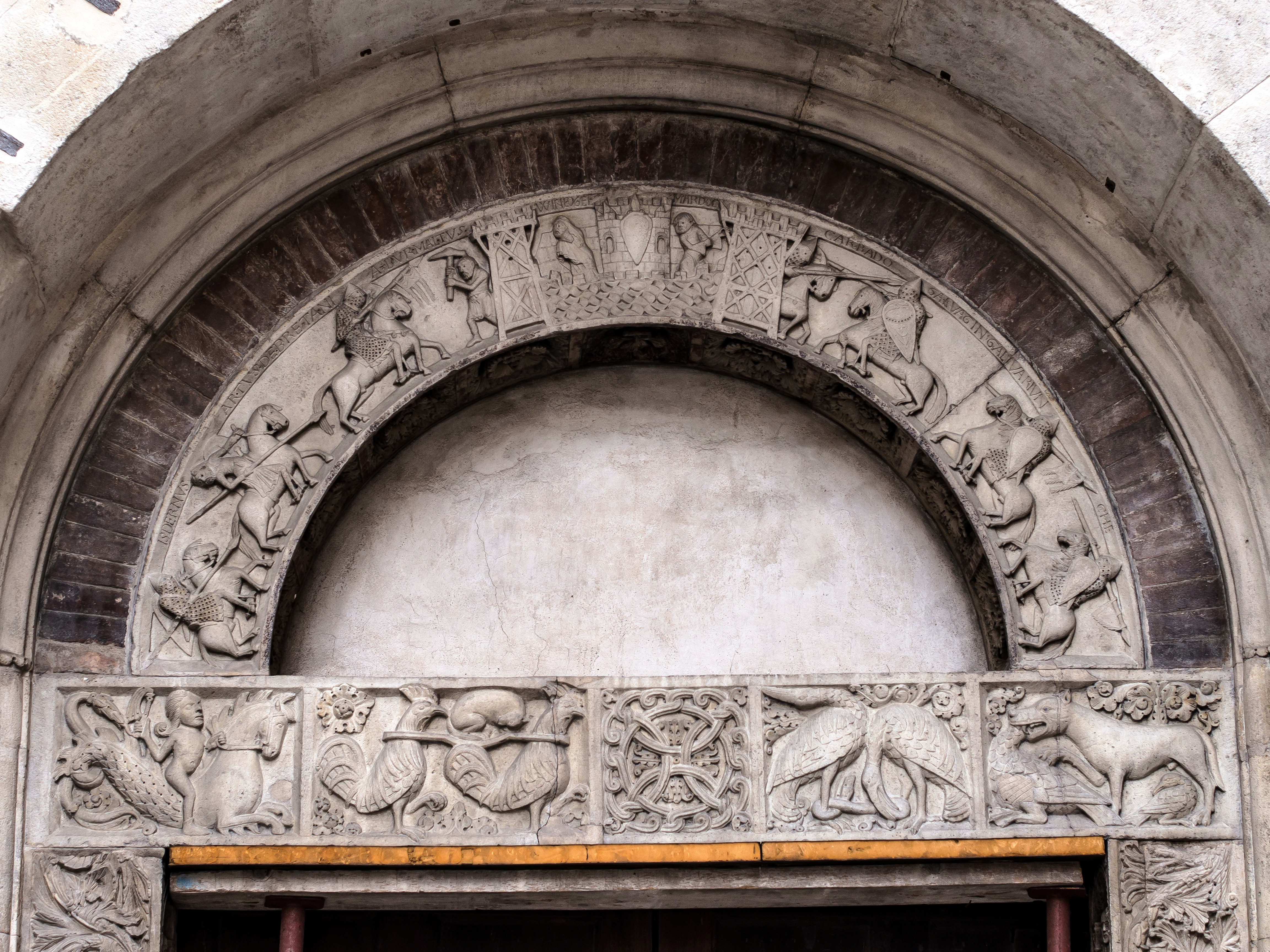 Relief sculptures on the archivolt and lintel of the north portal of Modena Cathedral carved by Wiligelmo in the early 12th century